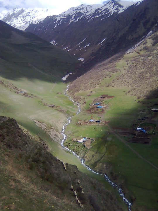 ხონე Khone